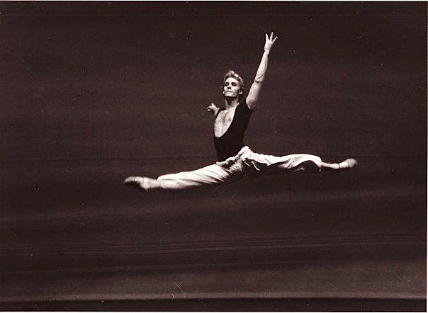 Johan Renvall at ballet rehearsal, c. 1985